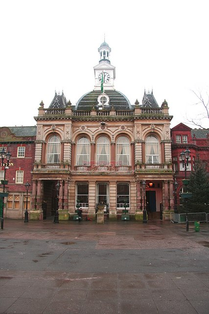 Retford Town Hall By Bellamy & Hardy of Lincoln, 1866-8 in a French style